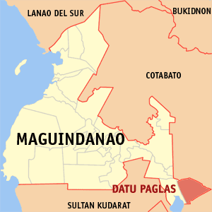 Map of the Maguindanao showing the location of Datu Paglas